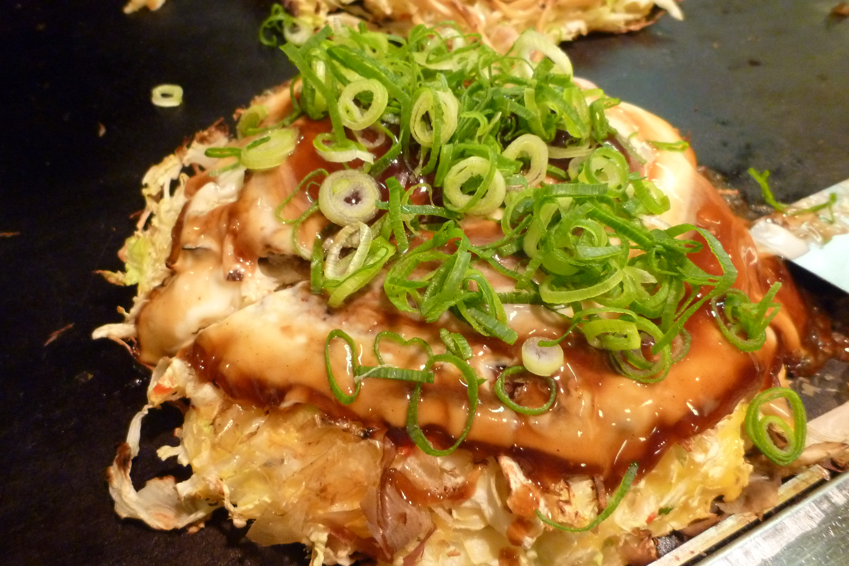 Okonomiyaki